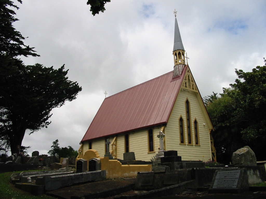 St. Alban's church, Pauatahanui. Built on the site of Te Rangihaeata's stockade, Mataitaua. Category II listing with the New Zealand Historic Places Trust, register no. 1320